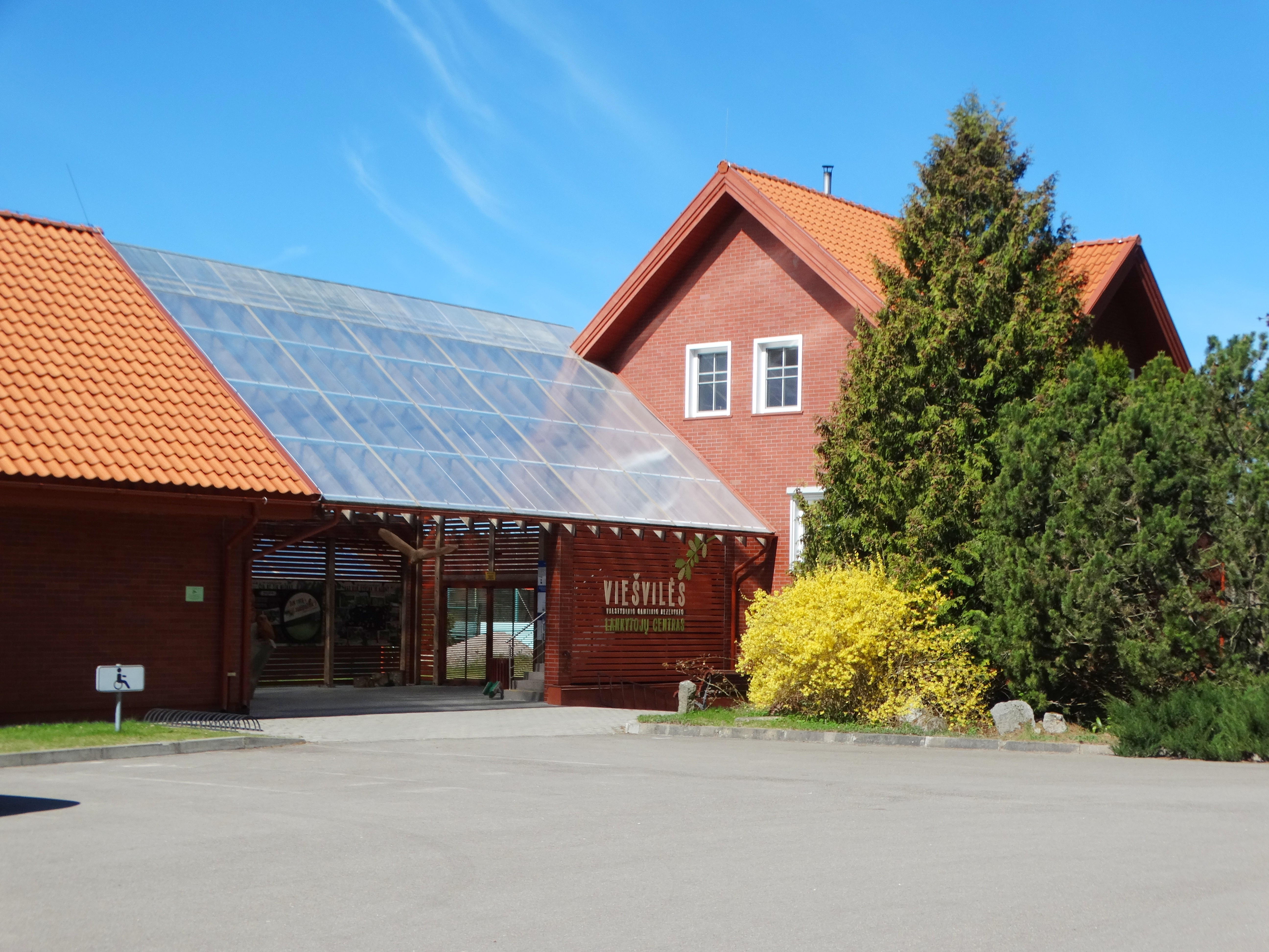 Viešvilės reserve Eičiai, Tauragė district, Lithuania